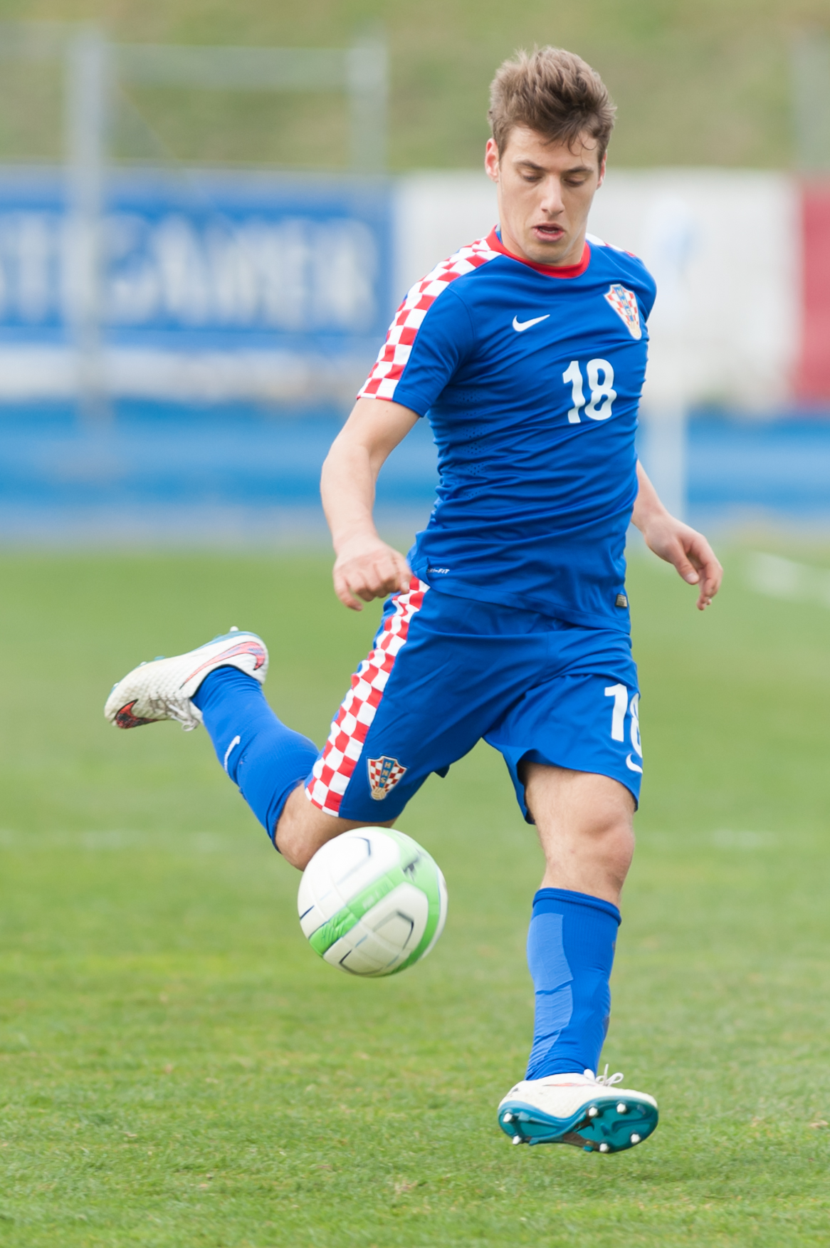 European Under-19 Championships 2015 Elite Round, Austria vs. Croatia, 28/03/2015 Wiener Neustadt, Lower Austria